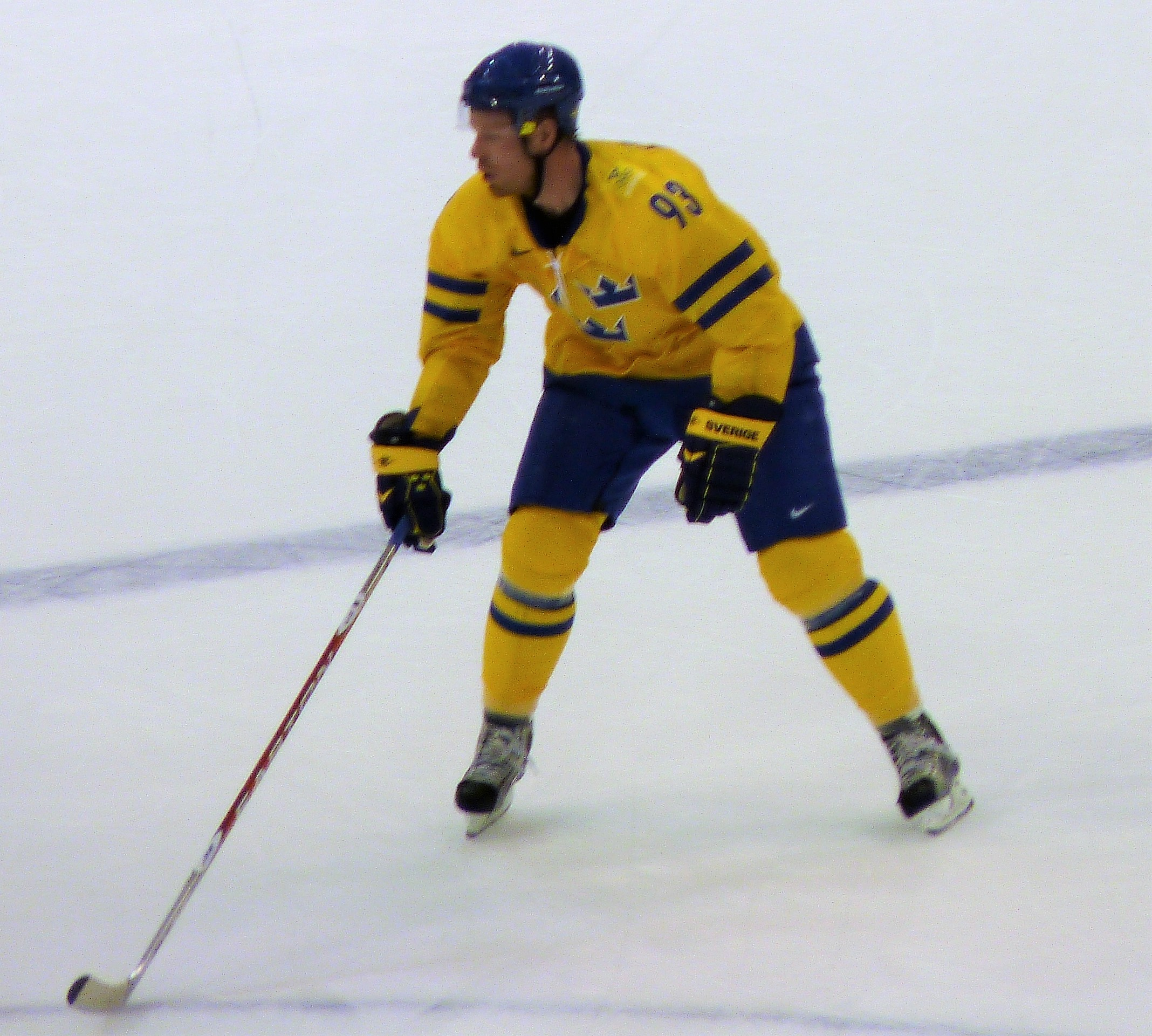 Cropped photo of Swedish ice hockey player Johan Franzén.